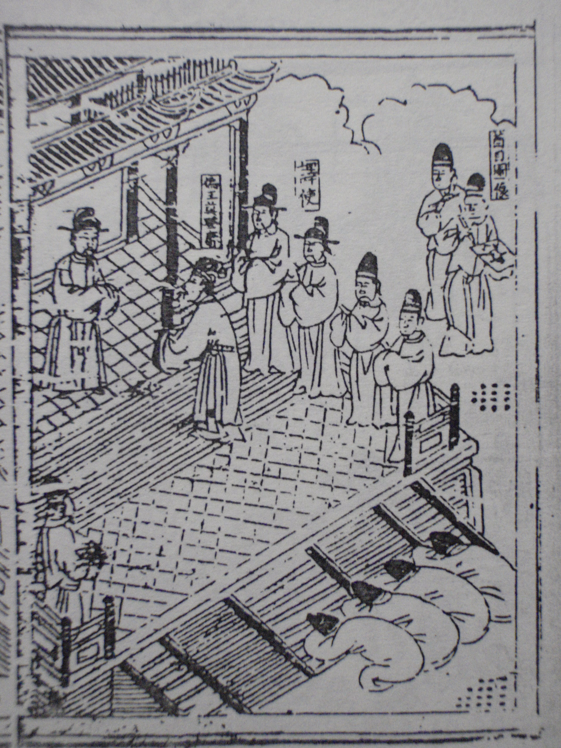 The picture describes the Annamese monarch Mạc Thái Tổ (莫太祖, 1483 - 1541) offered tribute to Ming Dynasty's envoy.